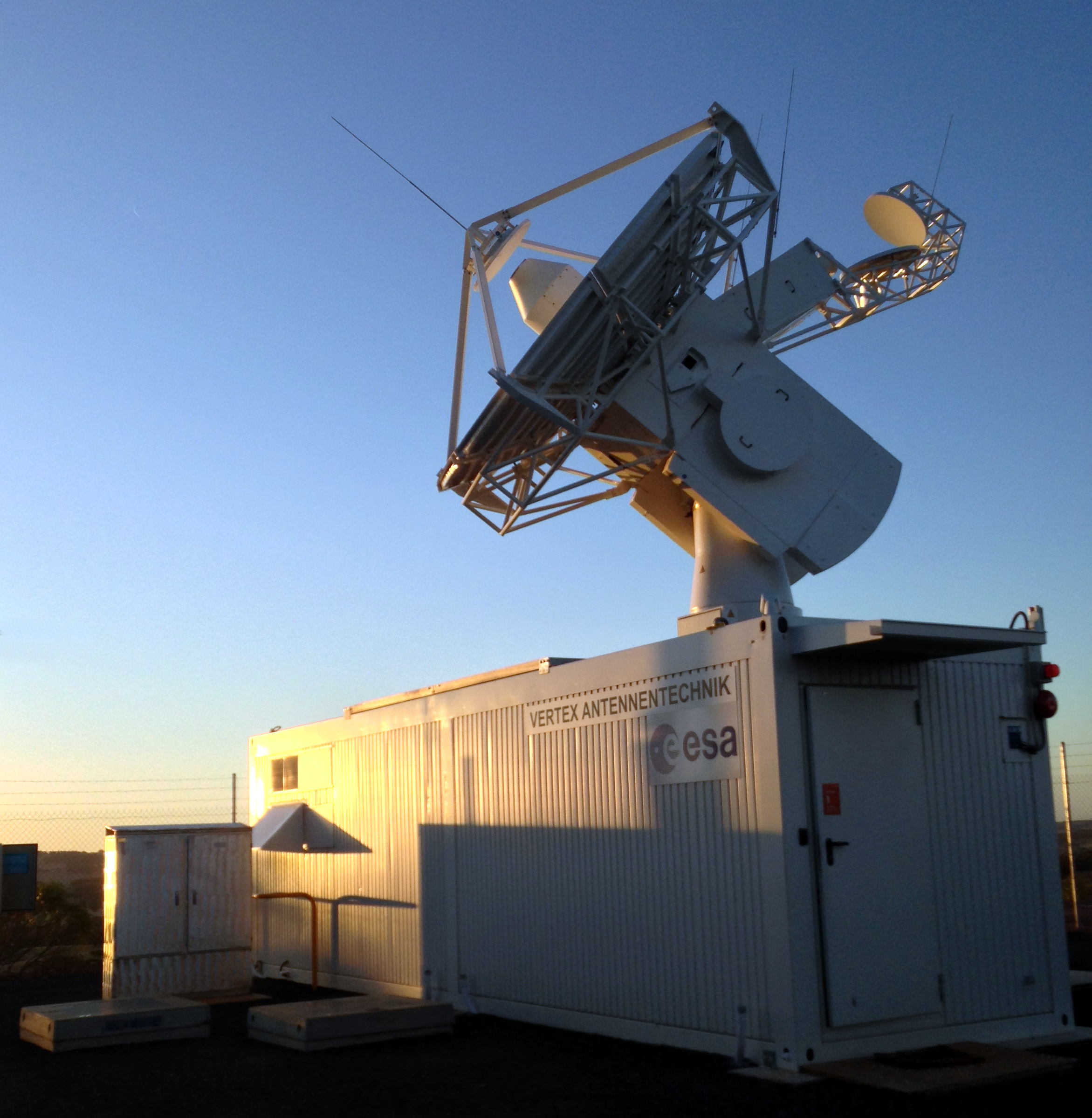 The 4.5-meter NNO-2 dish during its inauguration.